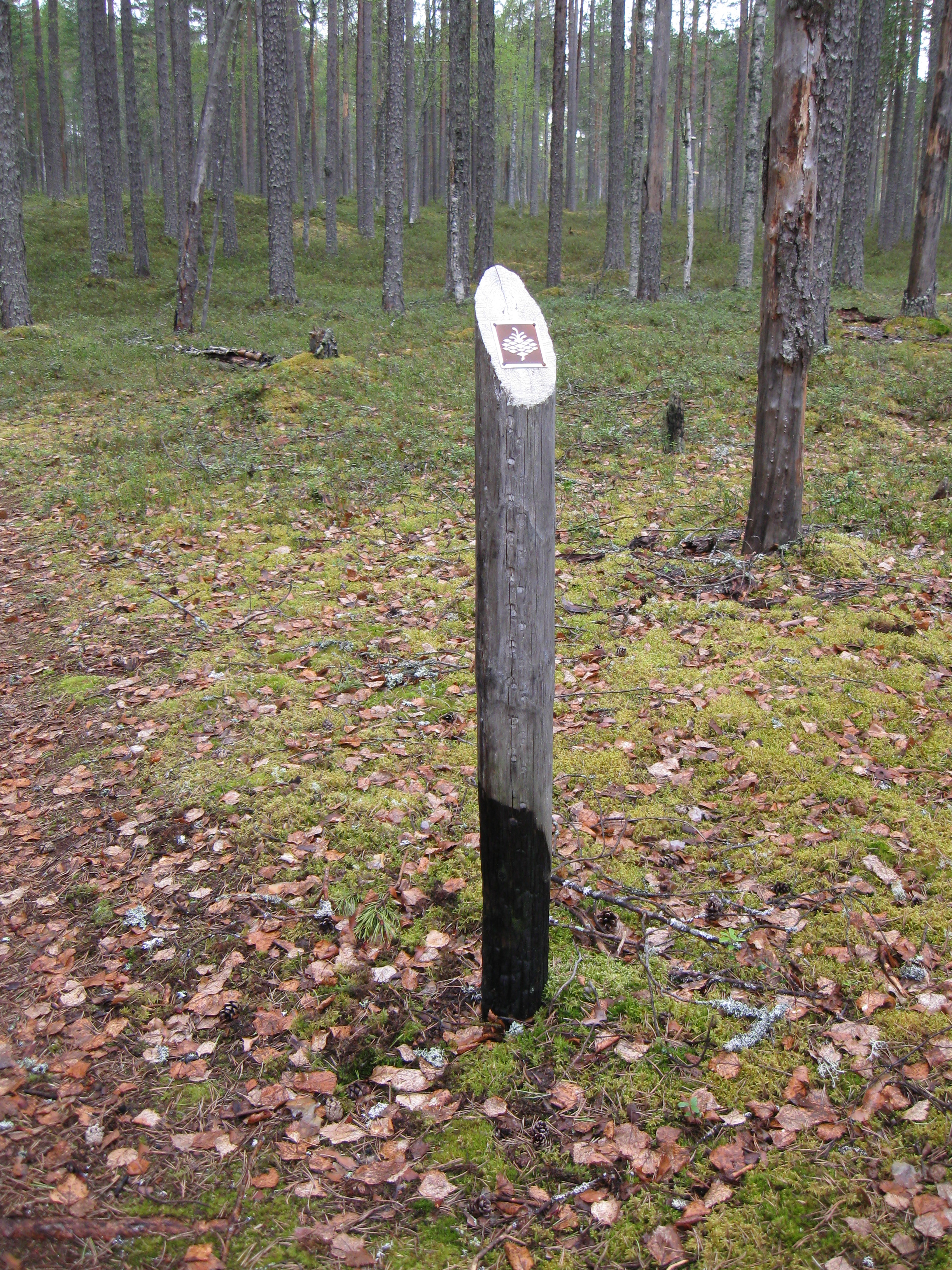 A pole on Olvassuo guided nature trail, with bottom one third fire-treated to prevent decay.